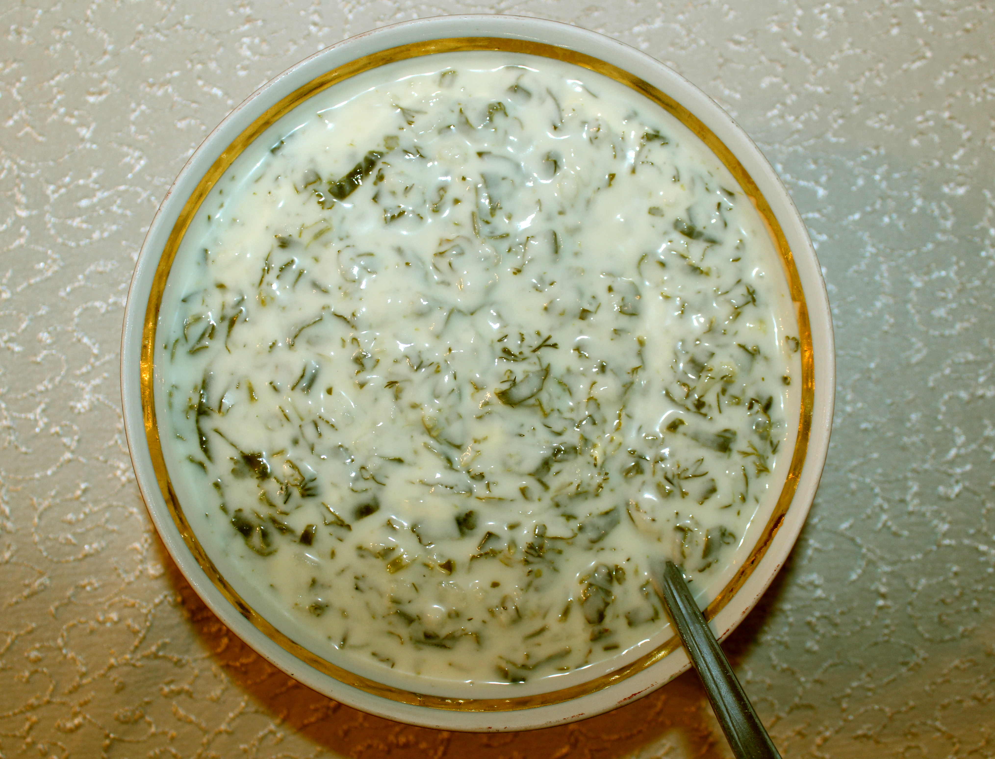 Azerbaijani dovğa